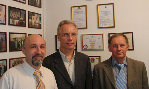 Stefan Chrobot, Director Office Friedrich-Ebert-Stiftung for Ukraine and Belarus in the Office of the Nomos Center, Sevastopol, Ukraine